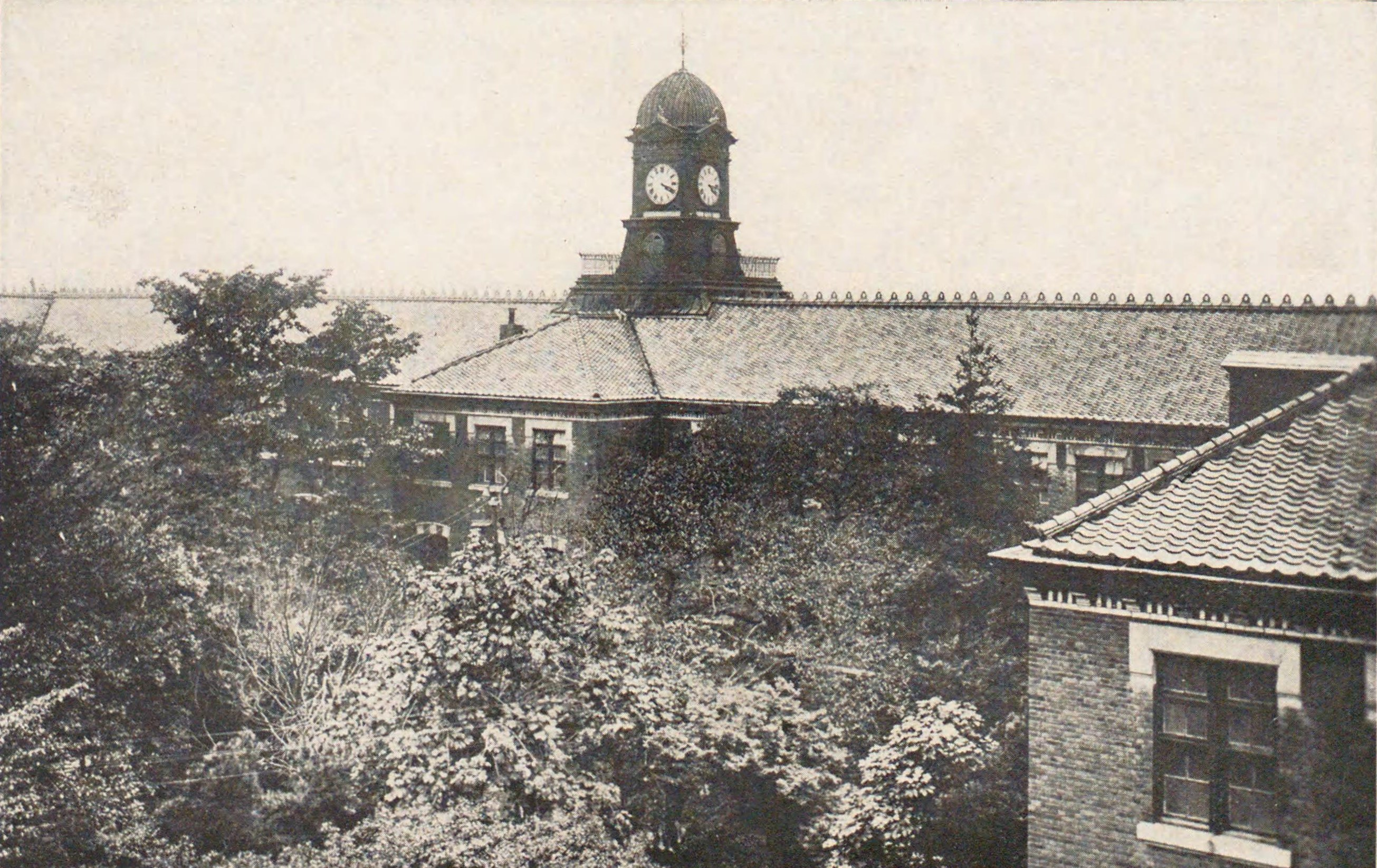 First Higher School, Japan before destroyed by Great Kanto Earthquake in 1923.